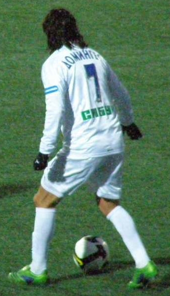 Alejandro Damián Domínguez in action for FC Zenit St.Petersburg